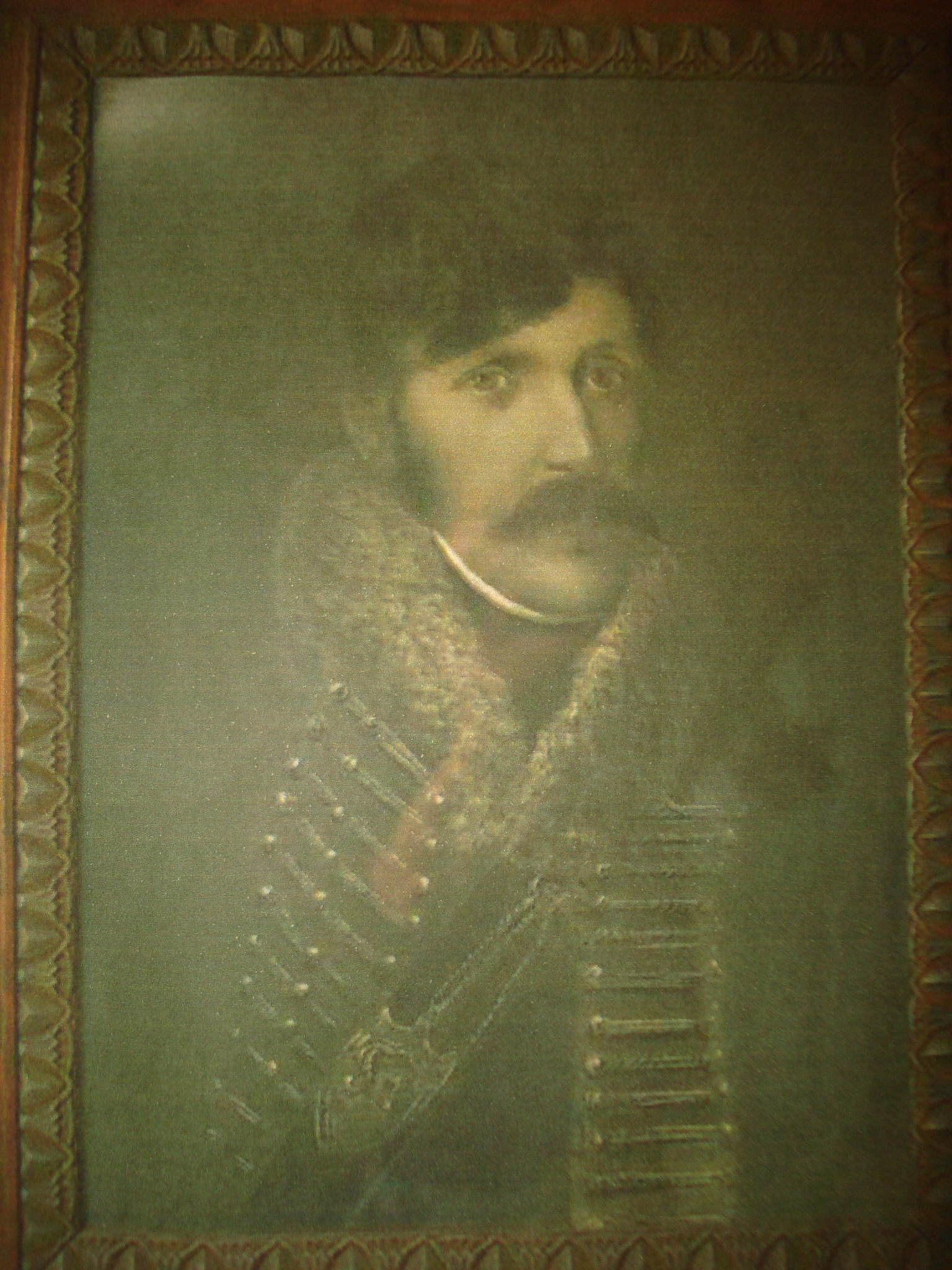 Baron Karlo Pavao Gvozdanović /Charles Paul Quosdanovich/ (1763-1817), Croatian nobleman and general of the Habsburg Monarchy imperial army